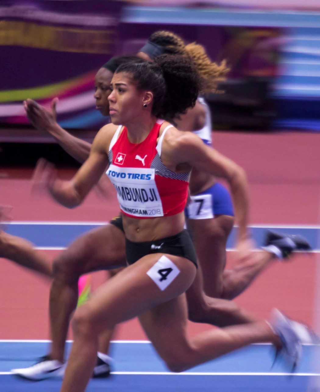 2018 IAAF World Indoor Championships in Athletics